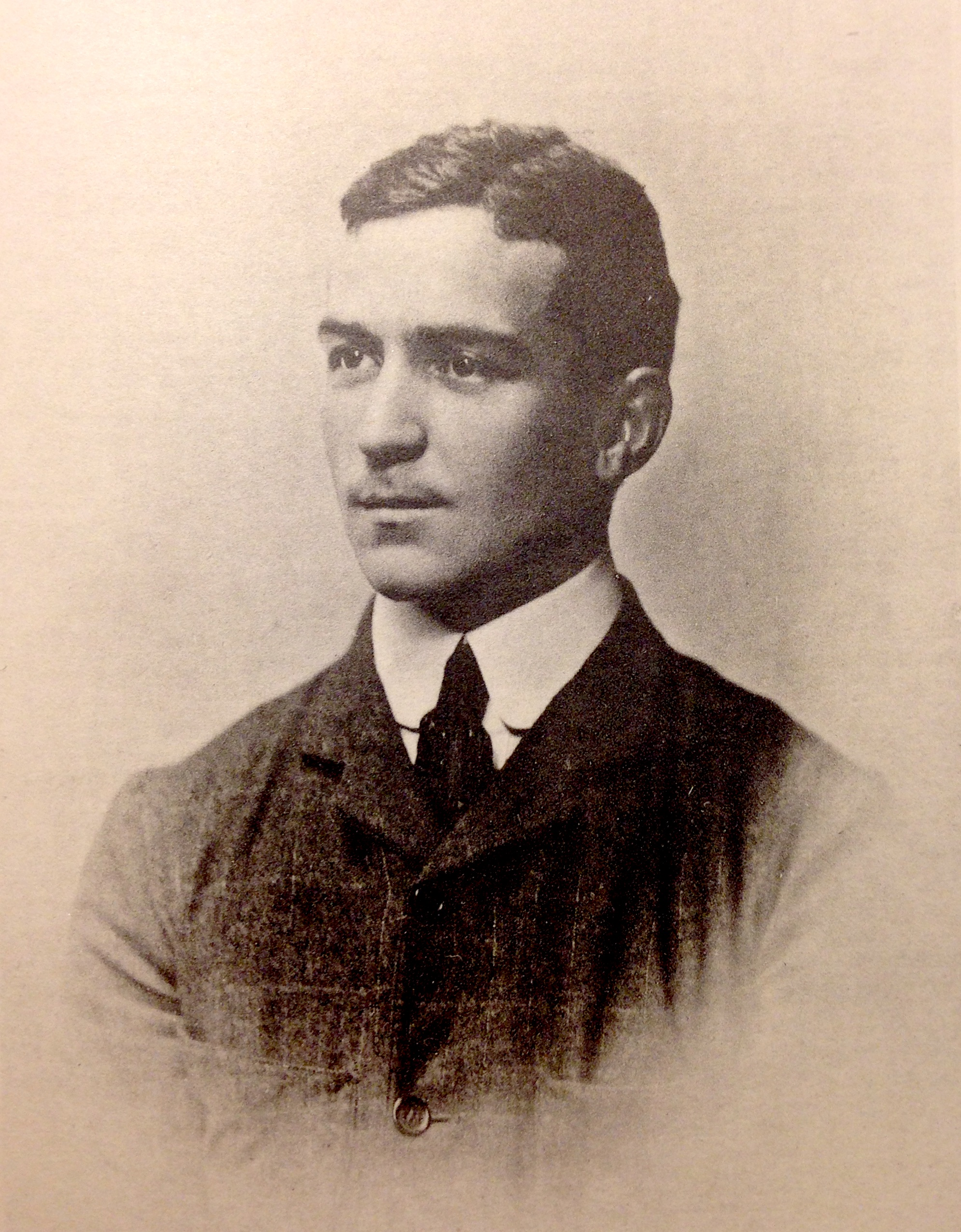 Sergeant Louis Augustus Phillips, Royal Fusiliers